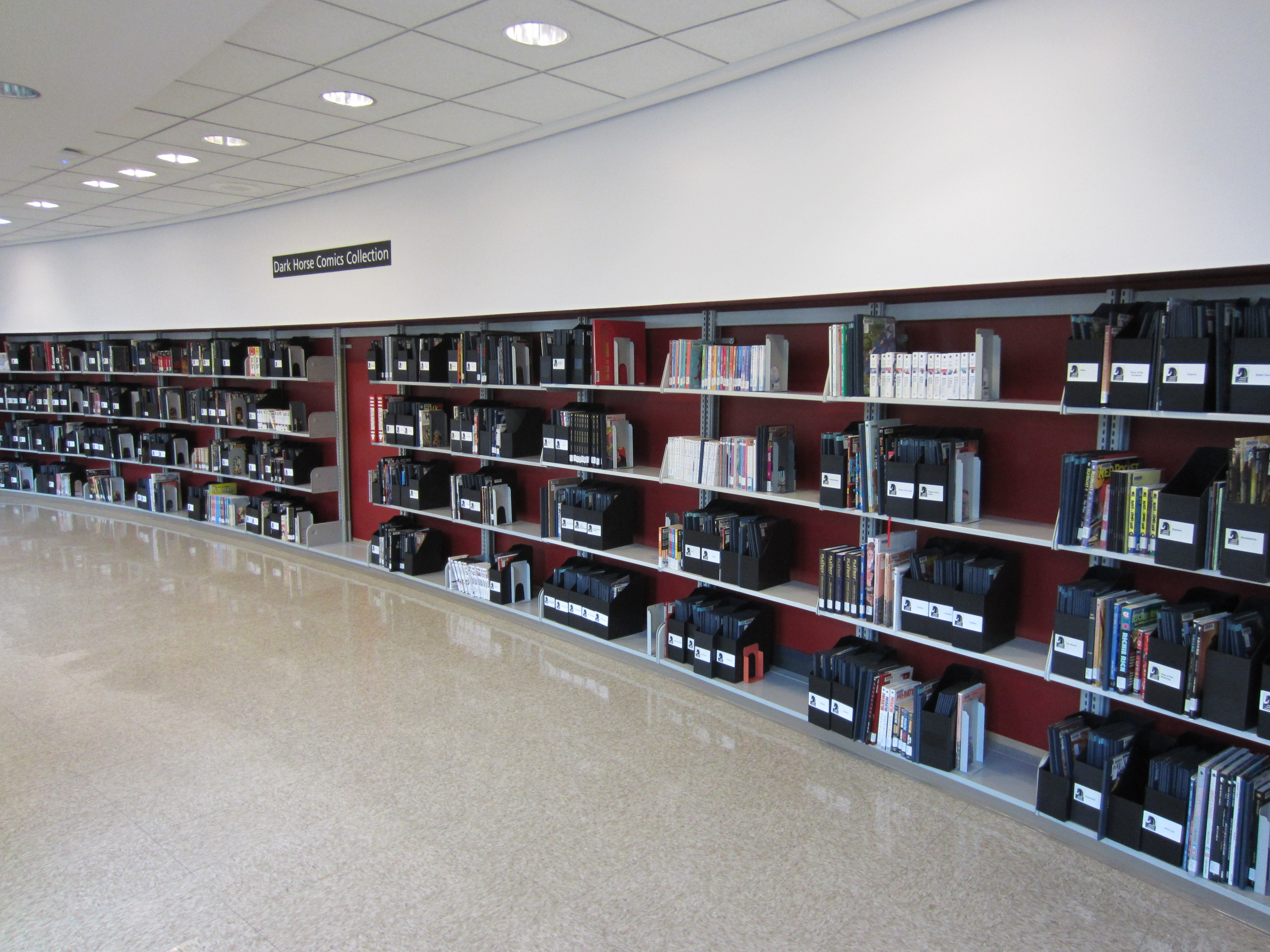 Branford Price Millar Library, Portland State University (2014)